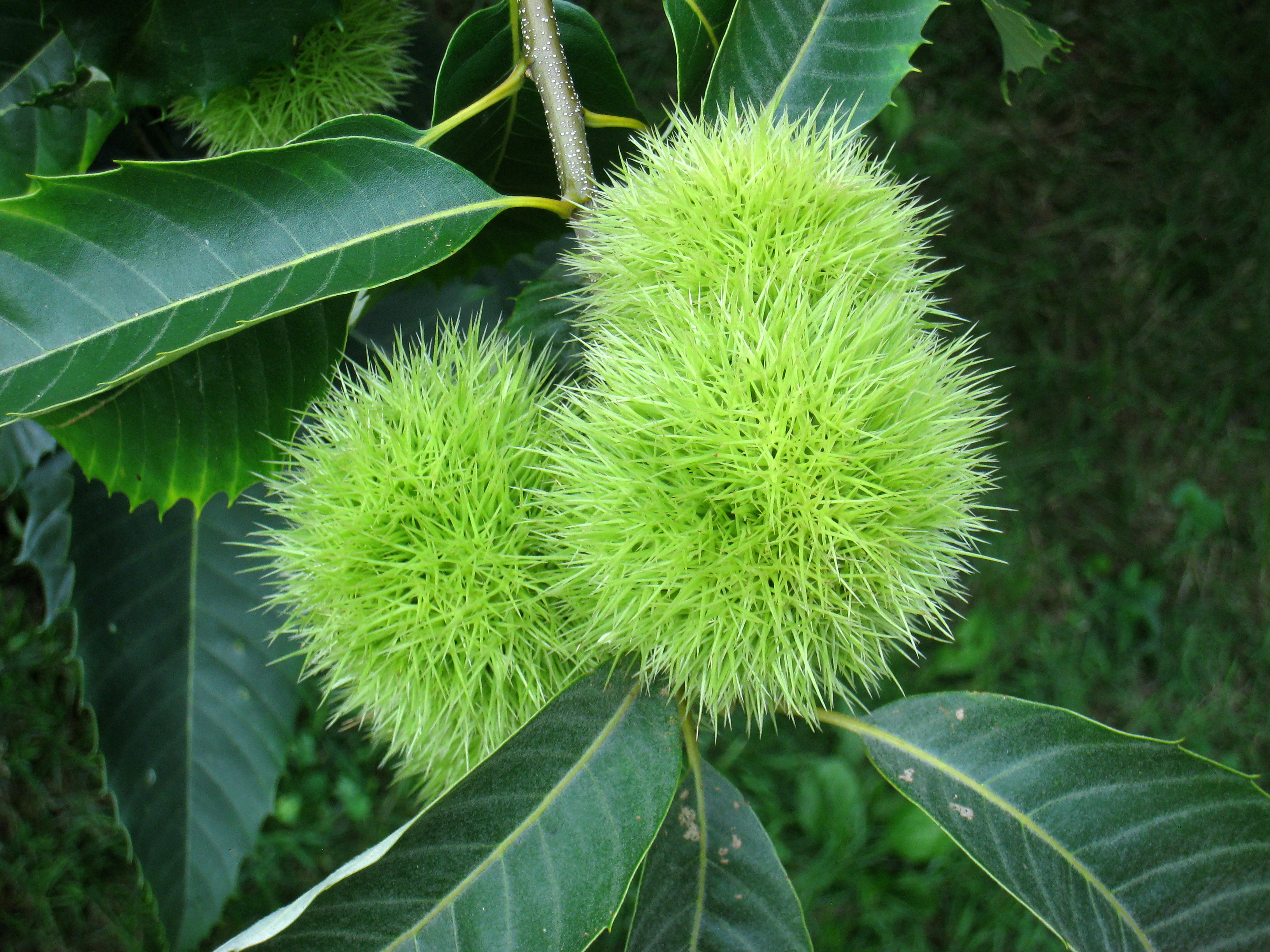 American Chestnut in the Louise Arnold Tanger Arboretum, Lancaster, Pennsylvania, USA.